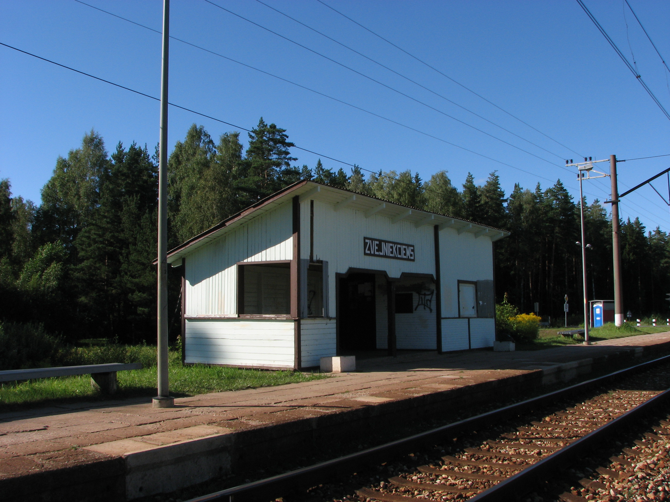 Zvejniekciems railway station, Latvia.